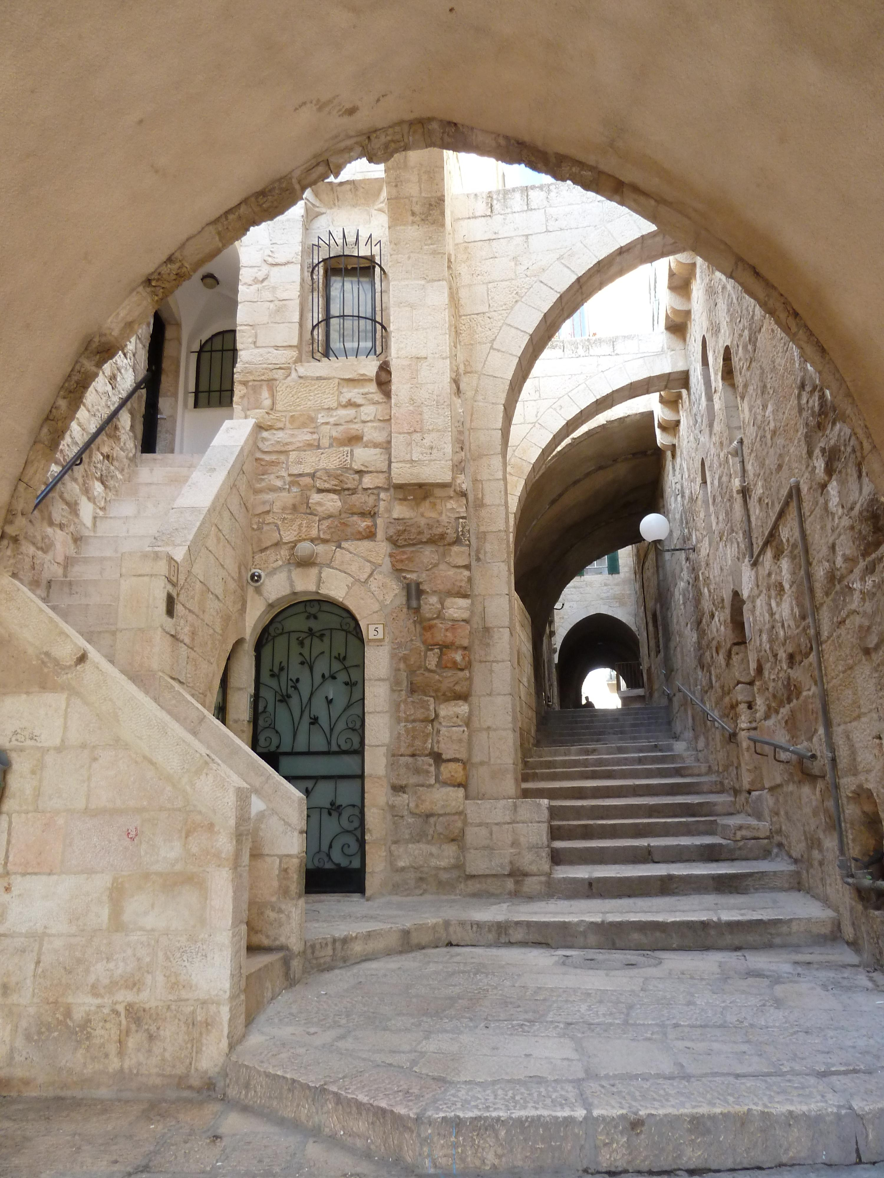 Old Jerusalem, Misgav Ladakh 5, old and new arches.